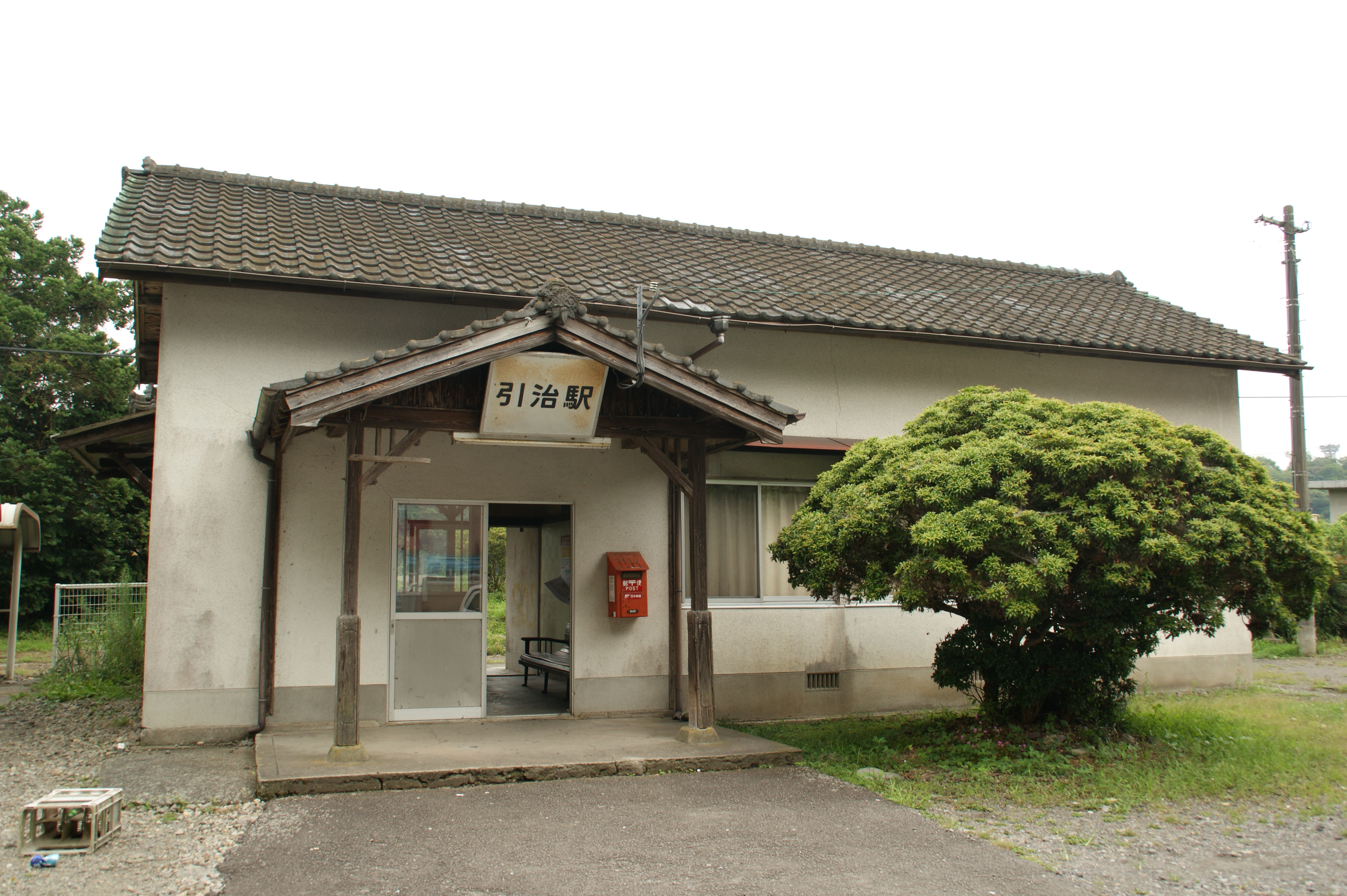 Kyushu Railway, Hikiji Station.(Kokonoe Town, Oita Prefecture, Japan)